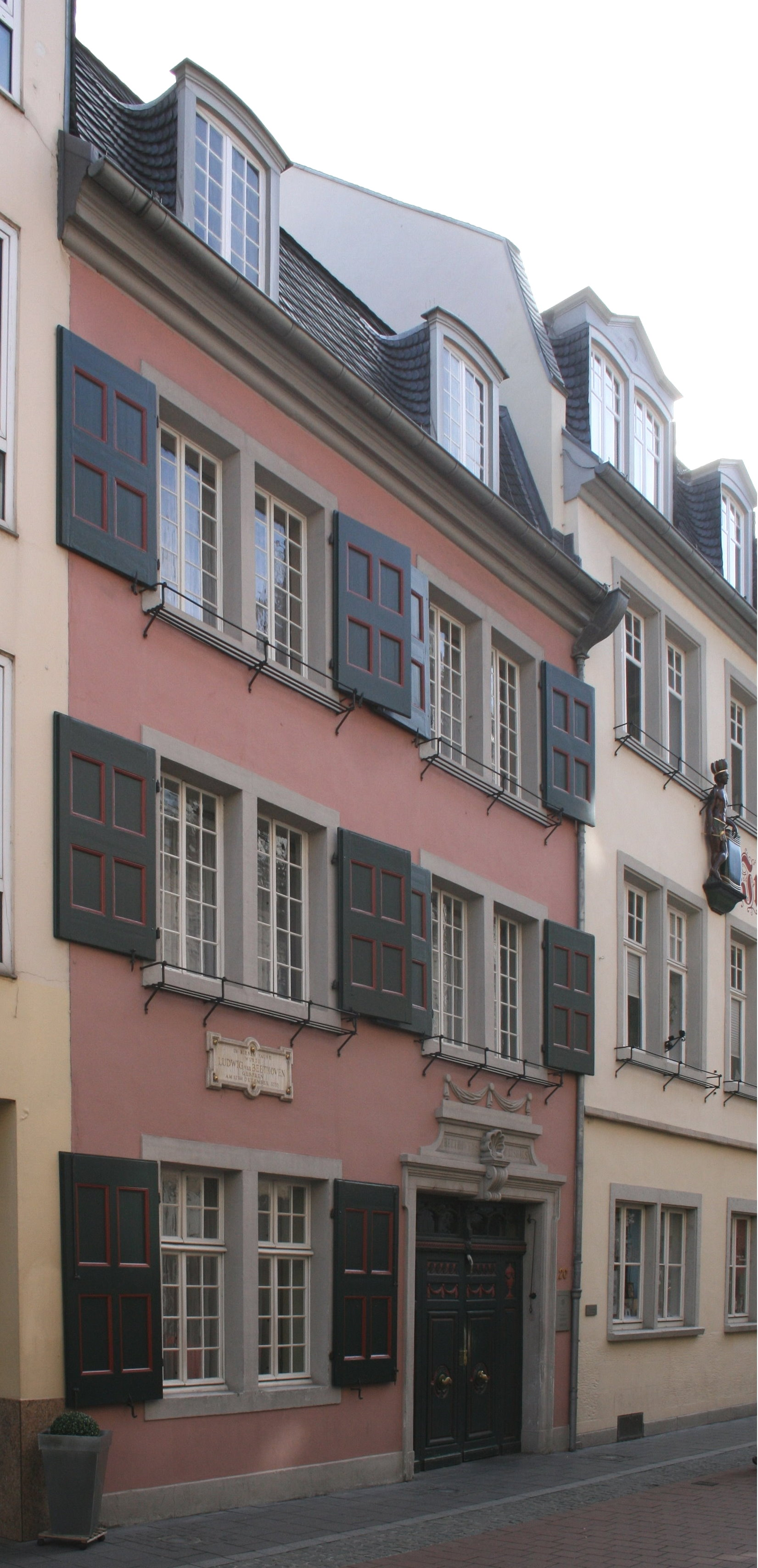 House of birth Ludwig van Beethoven, Bonn/Germany, Bonngasse